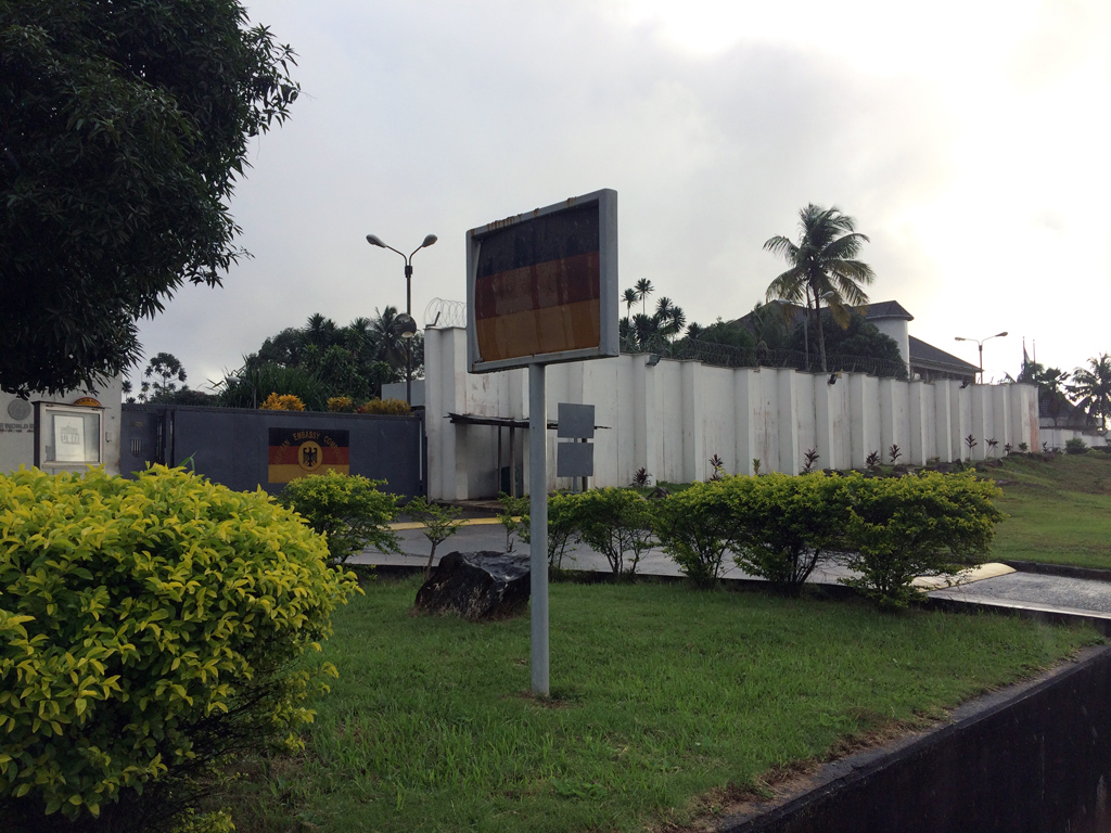 The German Embassy in Monrovia in the Congo Town district.